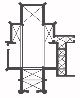 Planta de la iglesia del Monasterio jerónimo de San Miguel del Monte, en el término municipal de Miranda de Ebro (Burgos, Castilla y León, España)